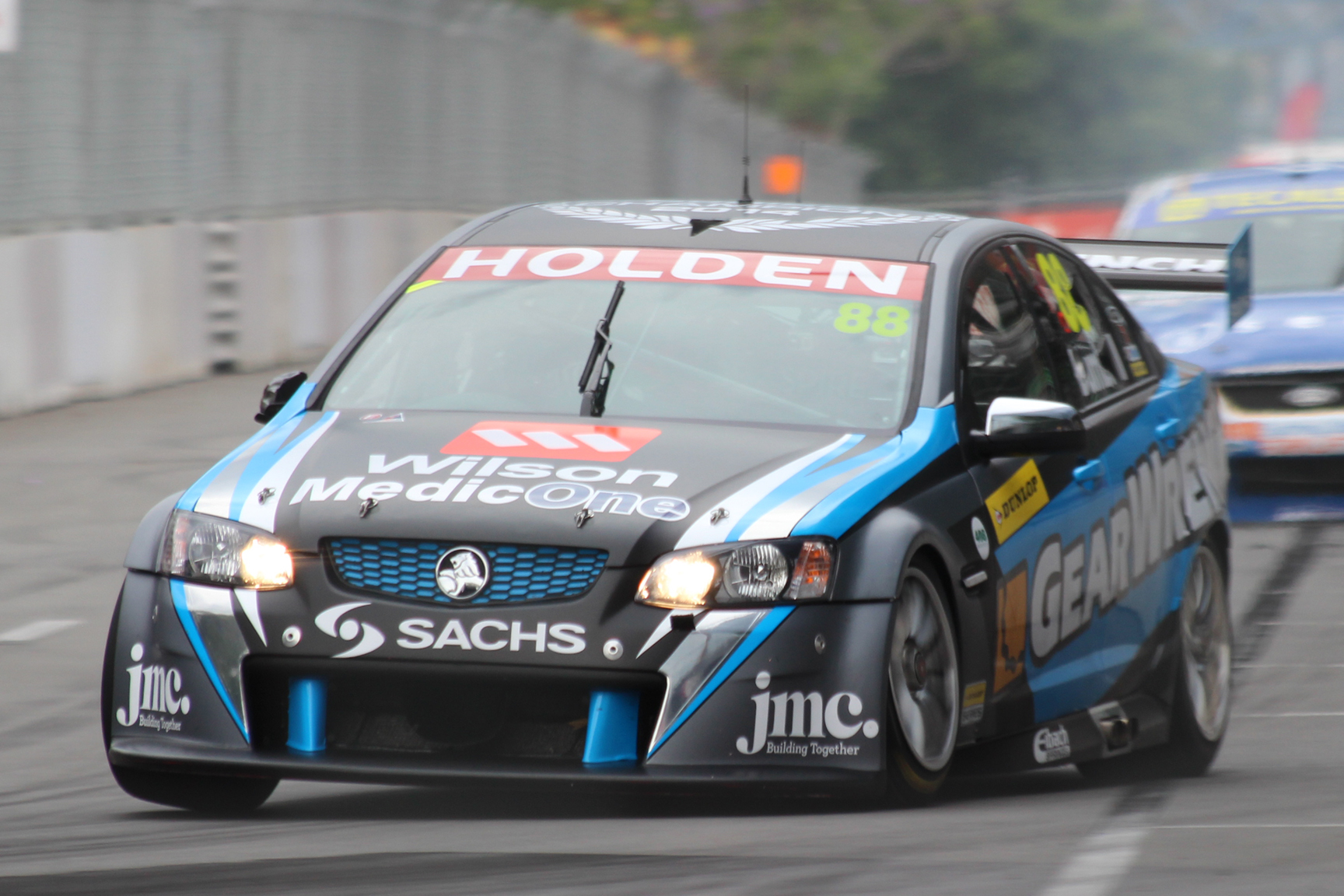 Paul Dumbrell driving for Eggleston Motorsport in the seventh round of the 2014 Dunlop V8 Supercar Series, at Sydney Olympic Park.